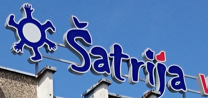 Klubas Šatrija – logo